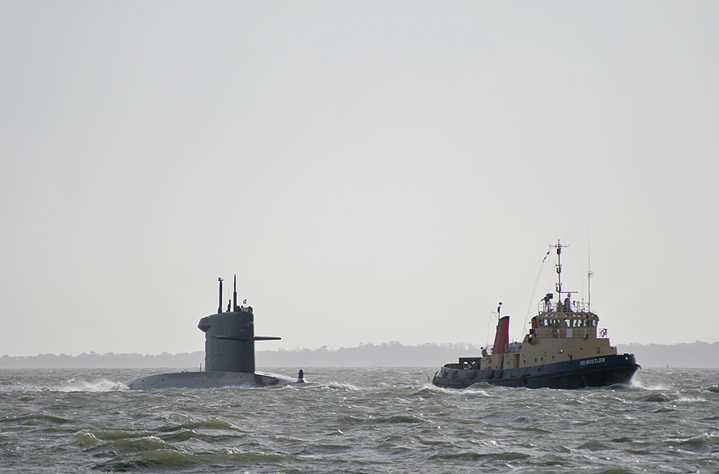 Dutch Navy warship HNLMS Dolphin, a Walrus class submarine, with its escort of the naval tug SD Bustler, entering Portsmouth Naval Base, UK, in high winds and rough seas on 19th September 2009. Image uploaded by me George.Hutchinson using a photograph supplied by Brian Burnell. The photograph should be attributed to Brian Burnell.